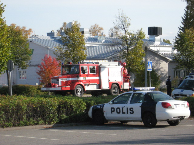 A fire engine and a police car in front of Kauhajoen koti- ja laitostalousoppilaitos school at few hours after shooting incident.